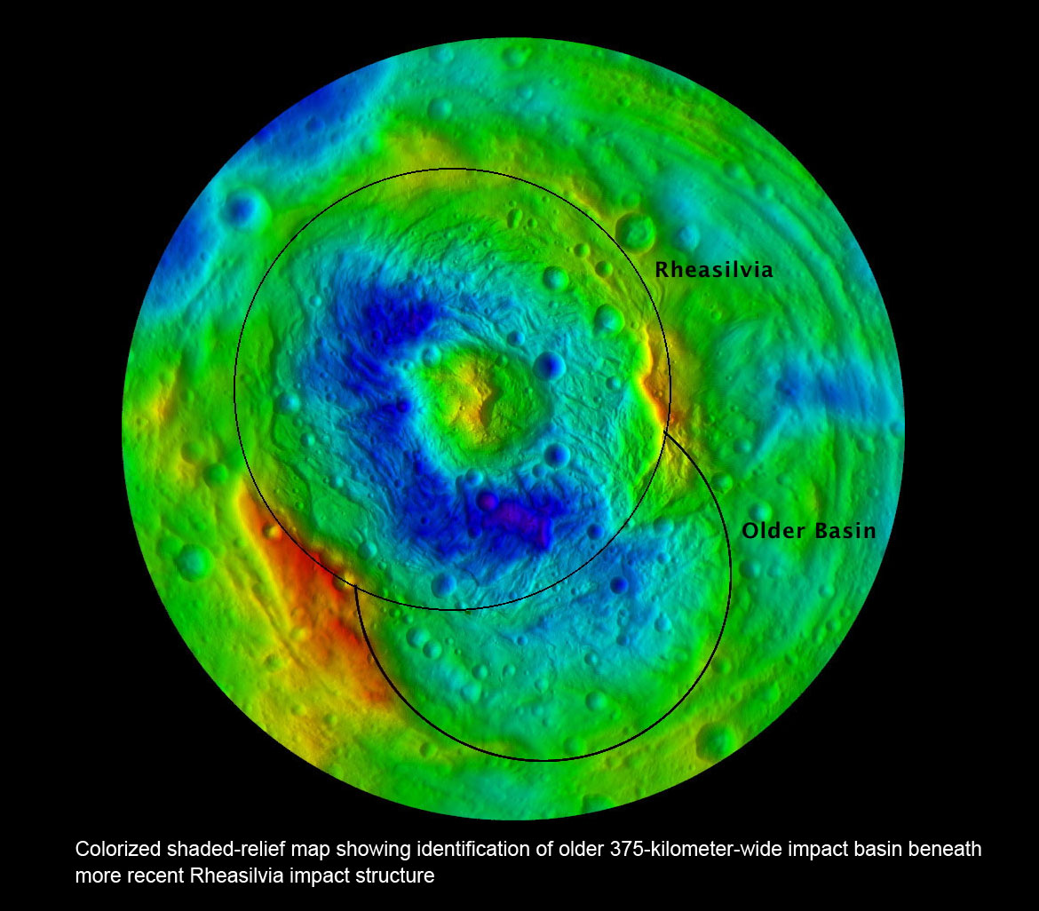 Colorized shaded-relief map showing identification of older 375-kilometer-wide impact basin beneath more recent Rheasilvia impact structure.